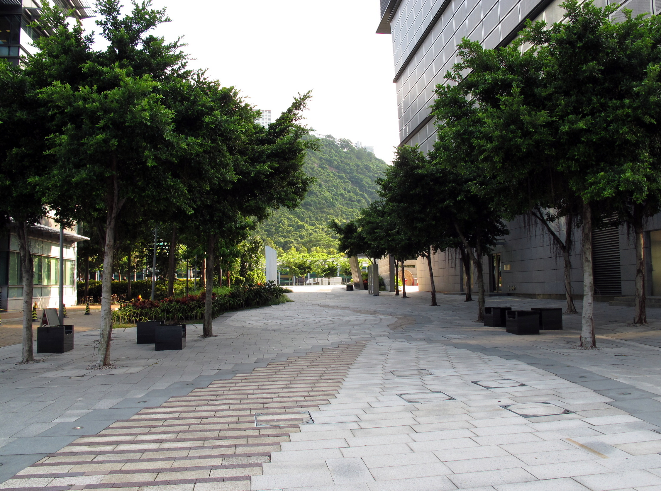 Hong Kong Science Park Phase 1